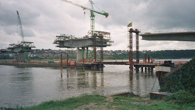 Building of Western Bypass Bridge (East Side) over River Taw at Barnstaple in Devon